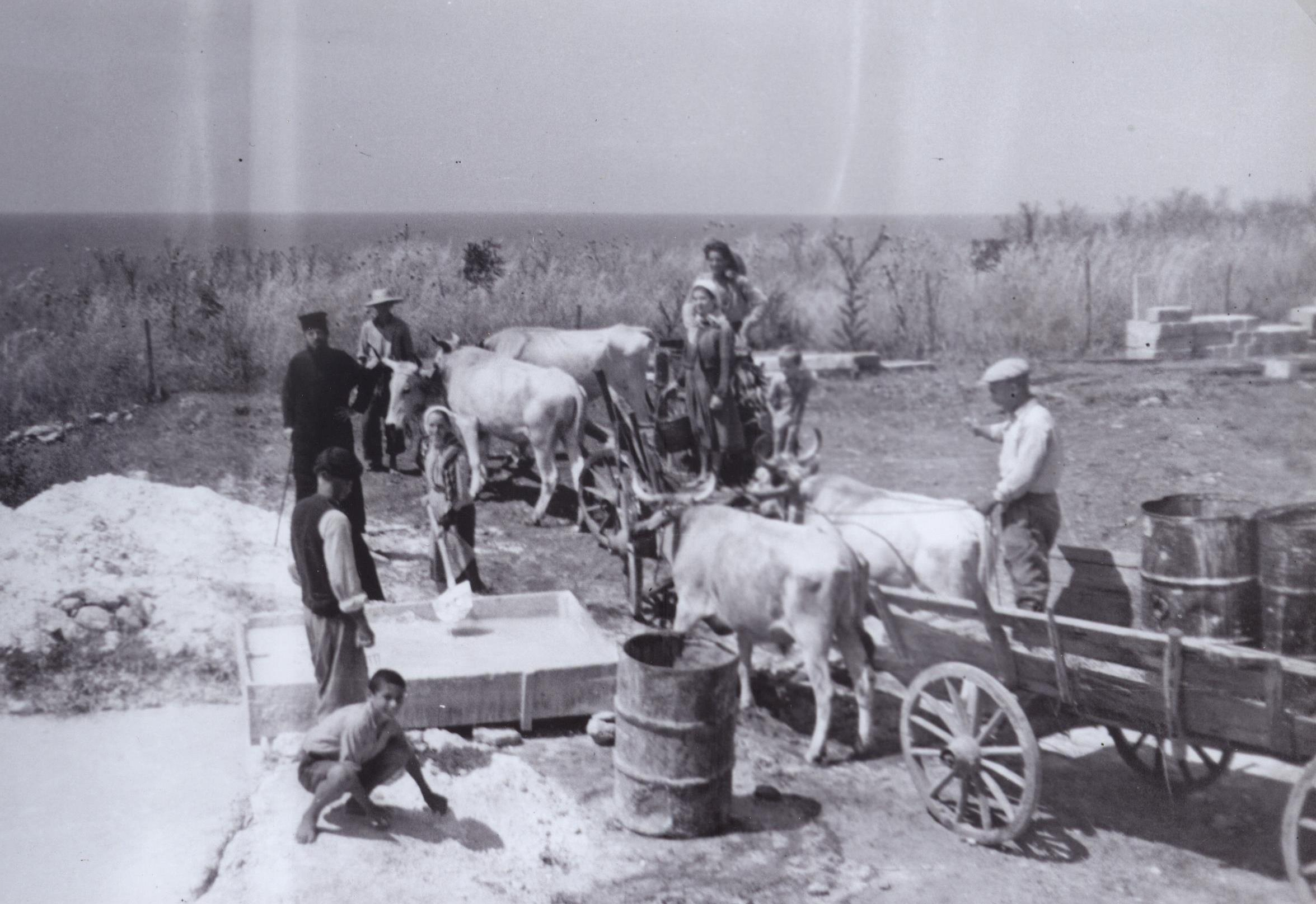 Building of the orthodox church in Fanari, Rhodope.